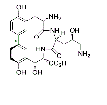 Biaryl cyclopeptides